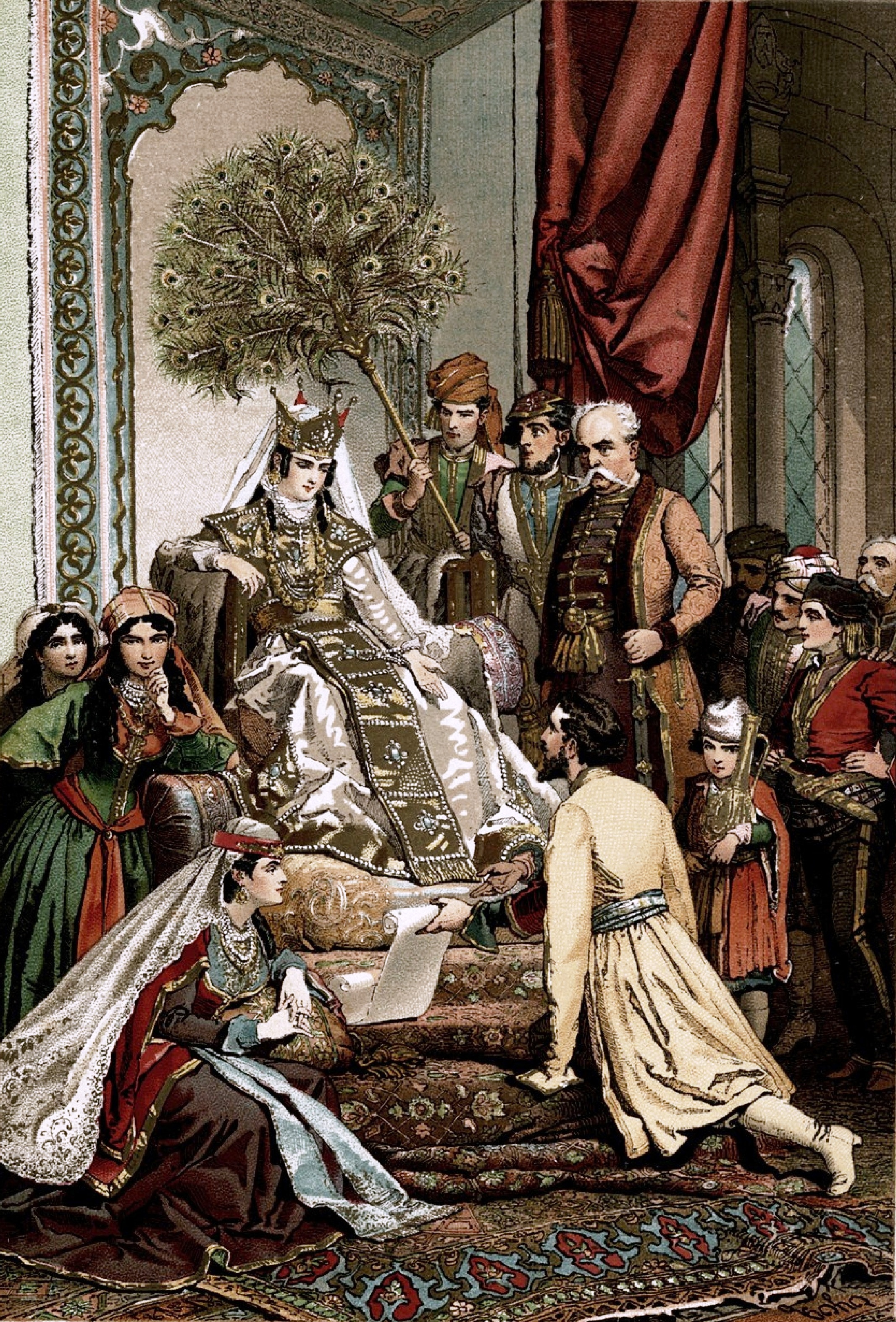 An illustration to the medieval Georgian epic poem Vep'xistq'aosani ("The Knight in the Panther's Skin") by the Hungarian artist Mihály Zichy (photozincography by Angerer in Vienna and color chromolithography by Breze). Scanned from the 1888 Georgian edition of the poem by the National Parliamentary Library of Georgia.